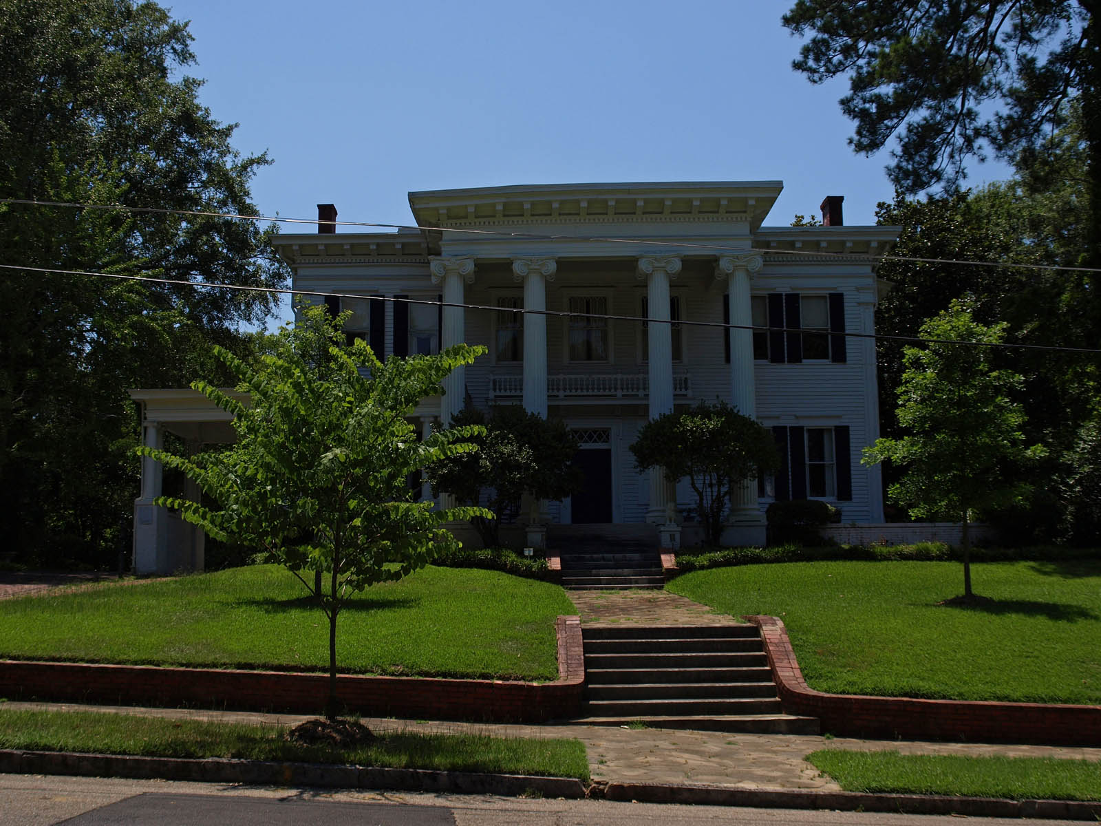 Front (east) side of the Dr. C.A. Thigpen House in Montgomery, Alabama